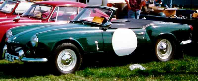 Triumph Spitfire Mk 2